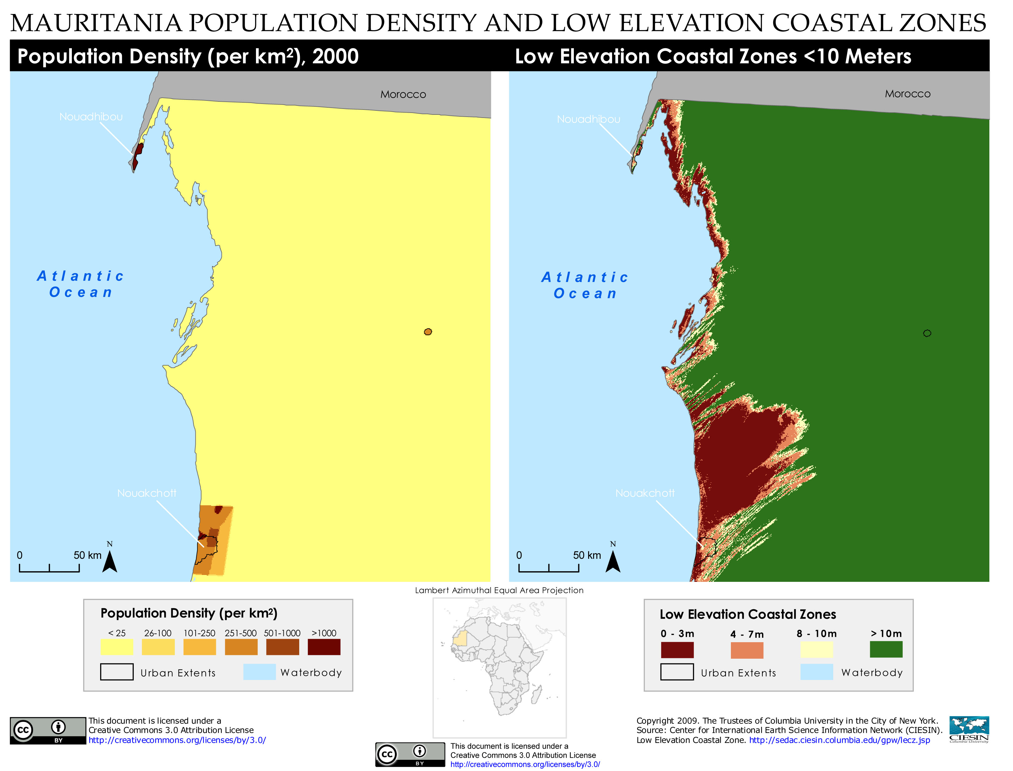 Nouakchott, Mauritania: Population Density and Low Elevation Coastal Zones